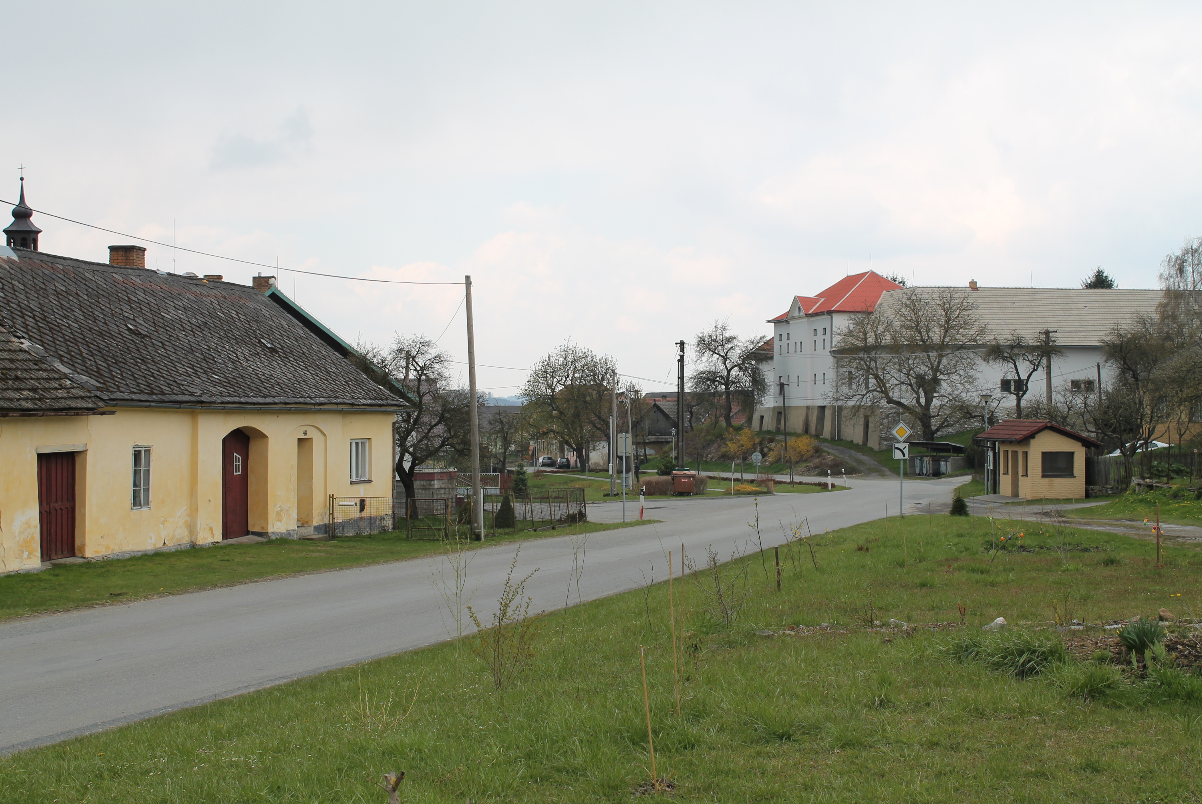 Rozsíčka, Blansko District, Czech Republic This photograph was taken during a group photography field trip by Brno Wikipedians: 2017-04-29.